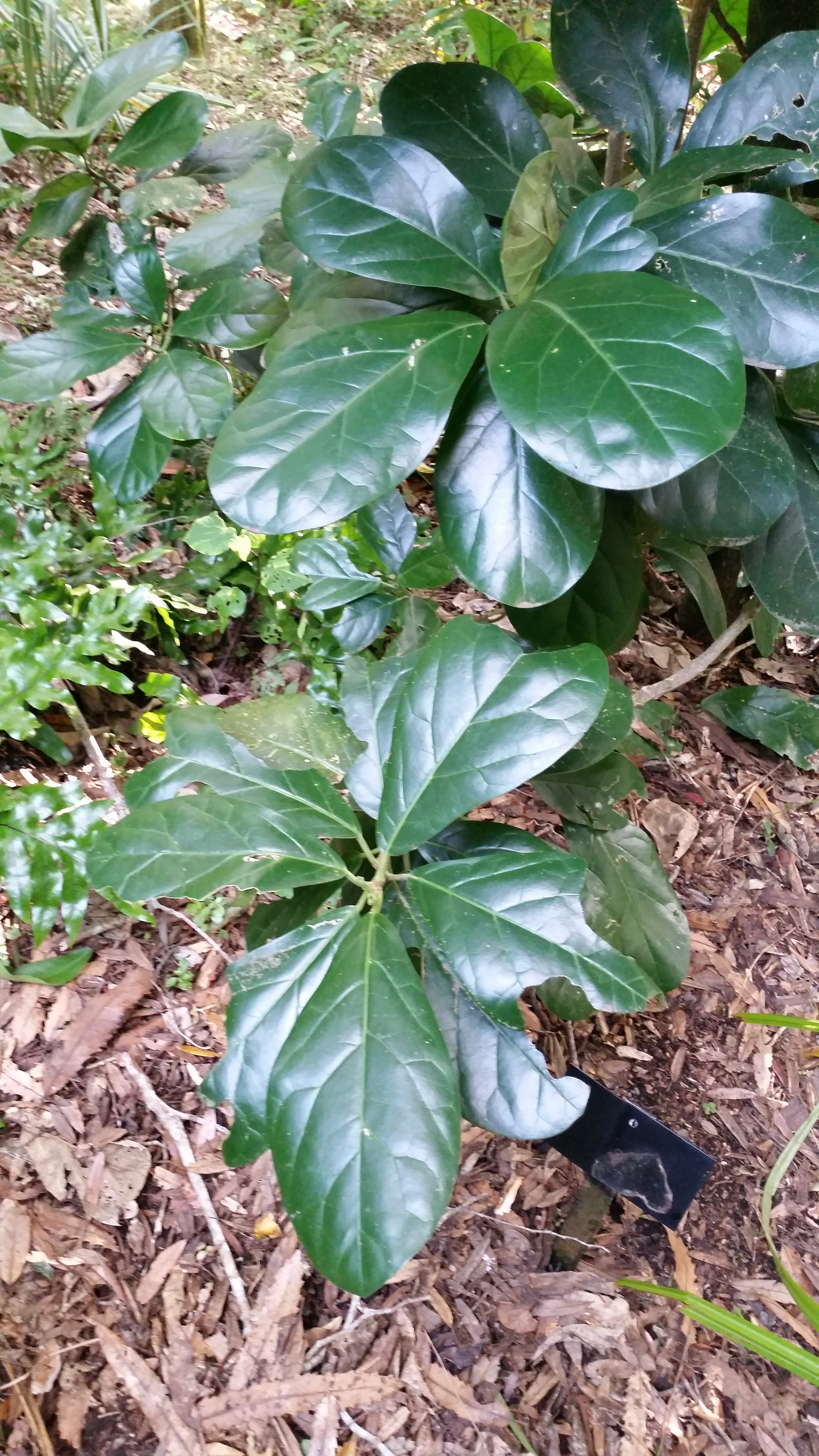 Leaves of a Pennantia baylisiana tree at Otari-Wilton Bush in Wellington, New Zealand. Grown from a cutting from the only tree of the species left in the wild.